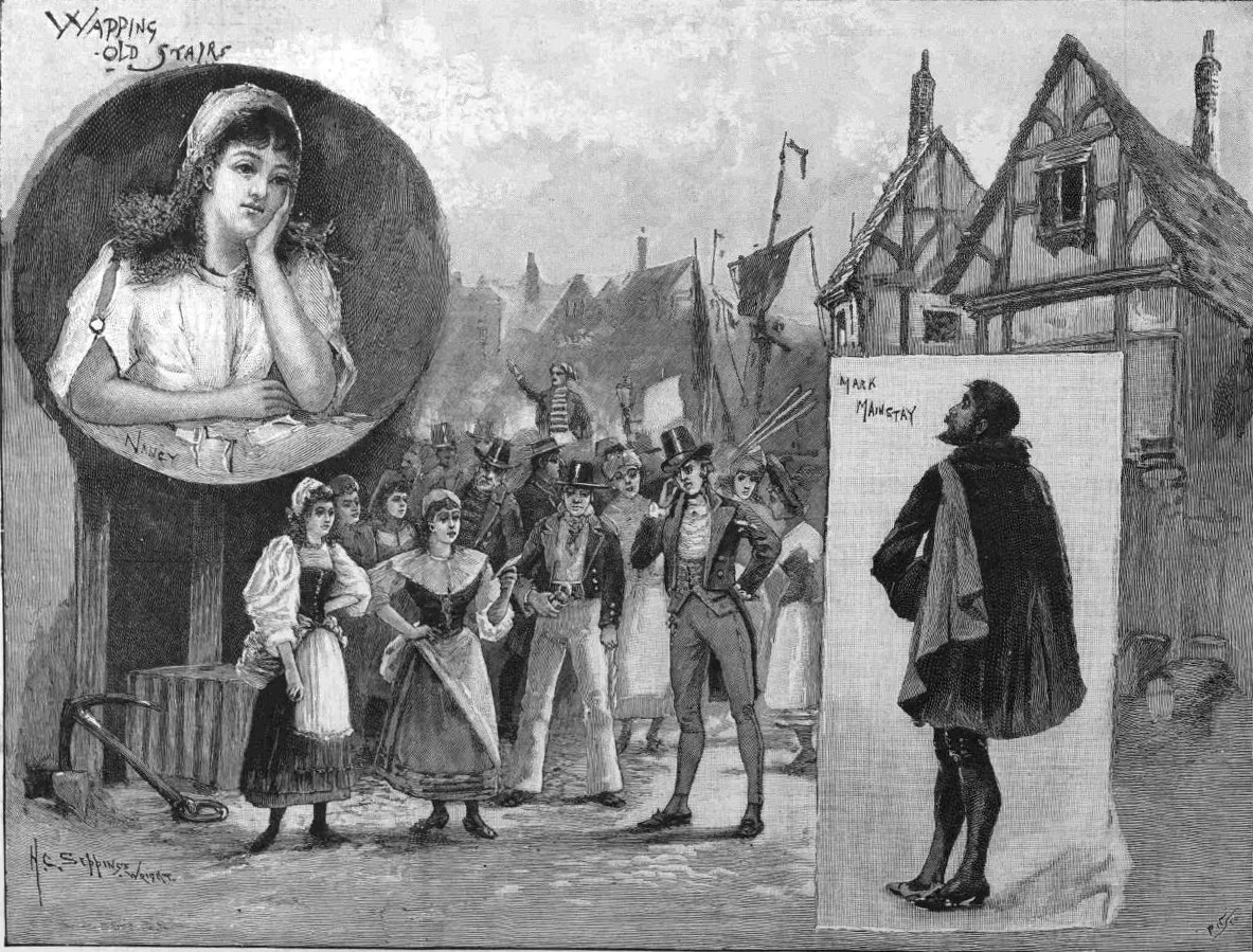 Scene from 'Wapping Old Stairs' at the Vaudeville Theatre - from The Illustrated London News - 3 March 1894 pg. 256